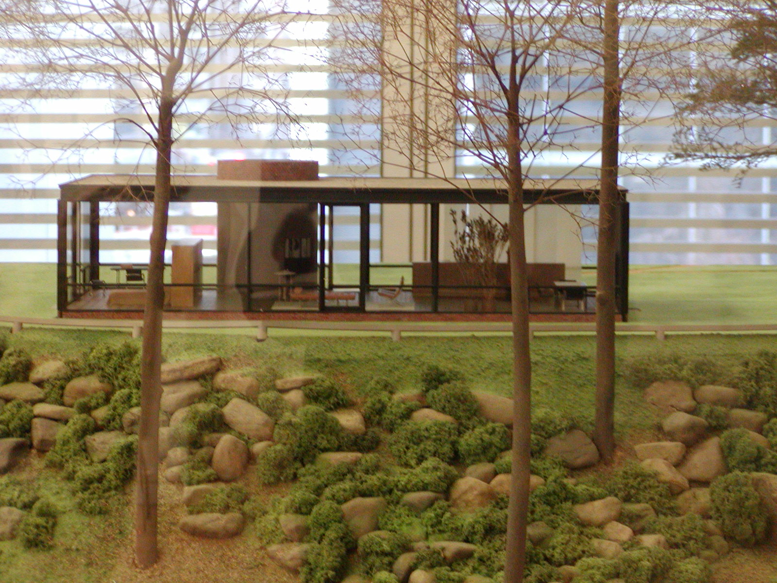 A model of the Glass House by architect Philip Johnson in display at the MOMA in NYC